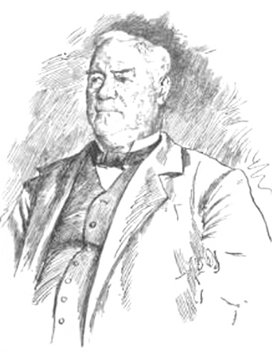 Page from book: Mexico, California and Arizona; being a new and revised edition of Old Mexico and her lost provinces. (1900)